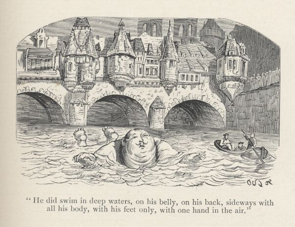 Illustration for Gargantua and Pantagruel by French artist, Gustave Dore.